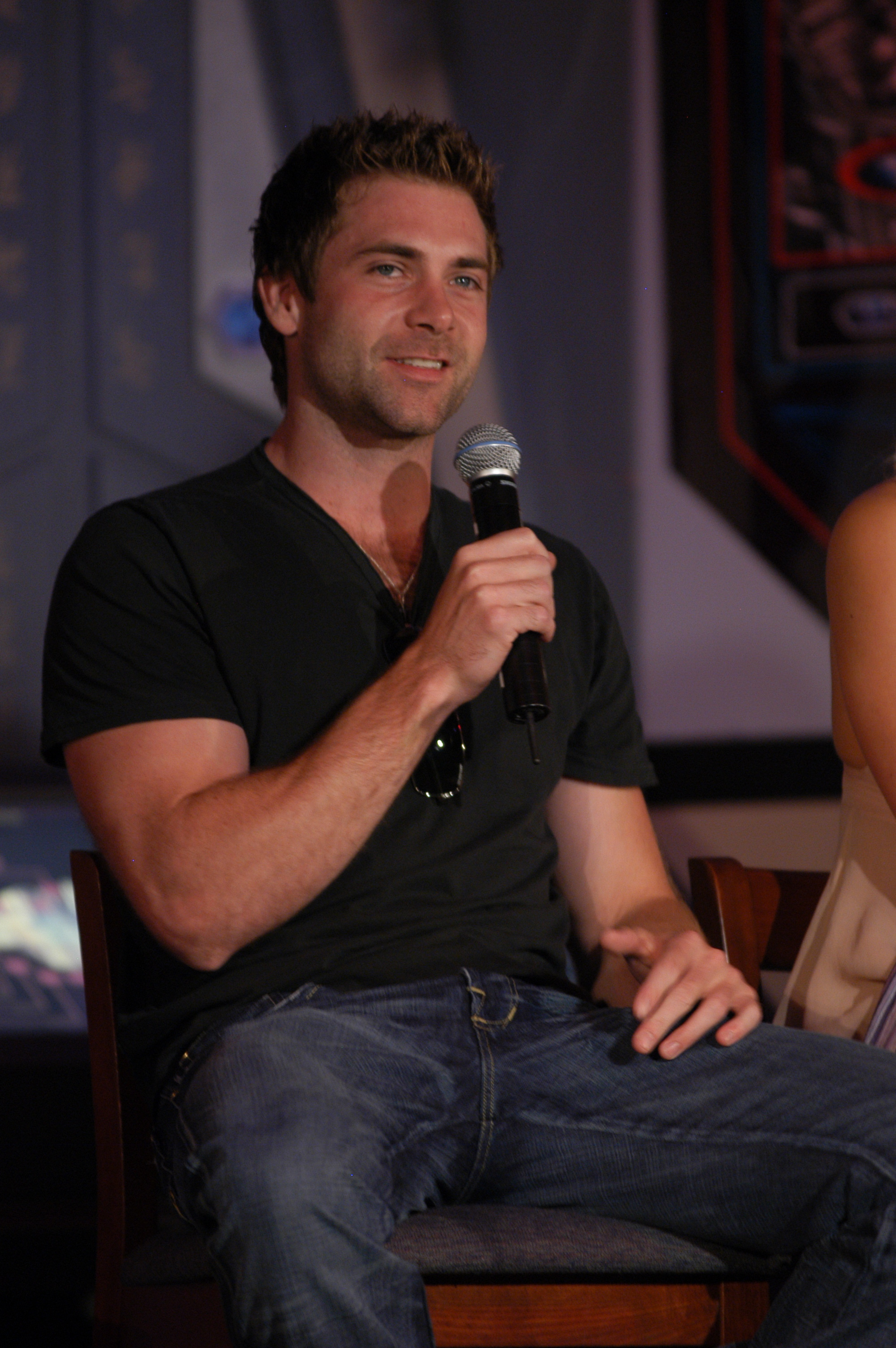 Chris Kramer at the Gatecon 2005 convention in Vancouver (Canada).